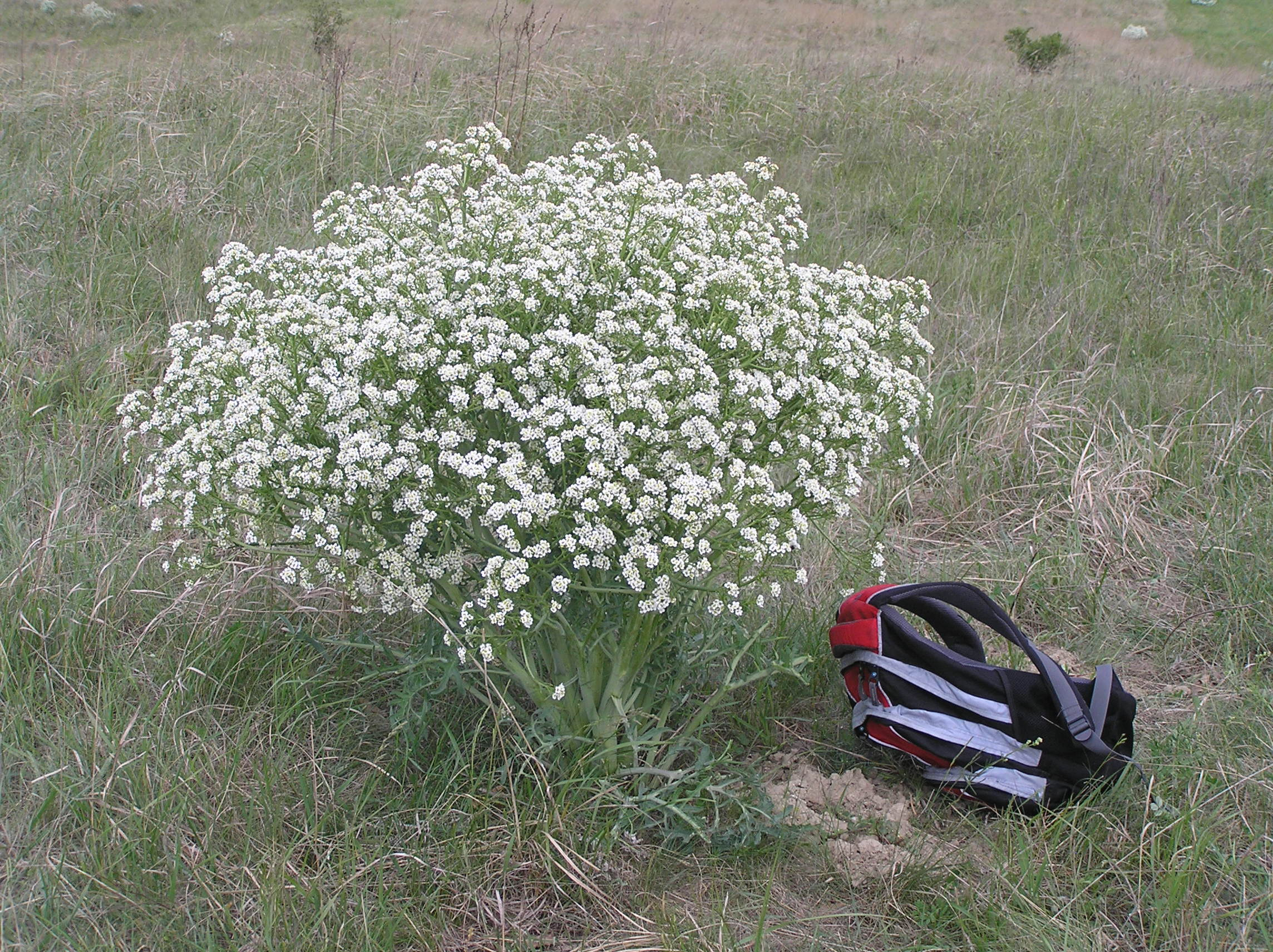 Crambe tataria, Pouzdřany, Southern Moravia, Czech Republic